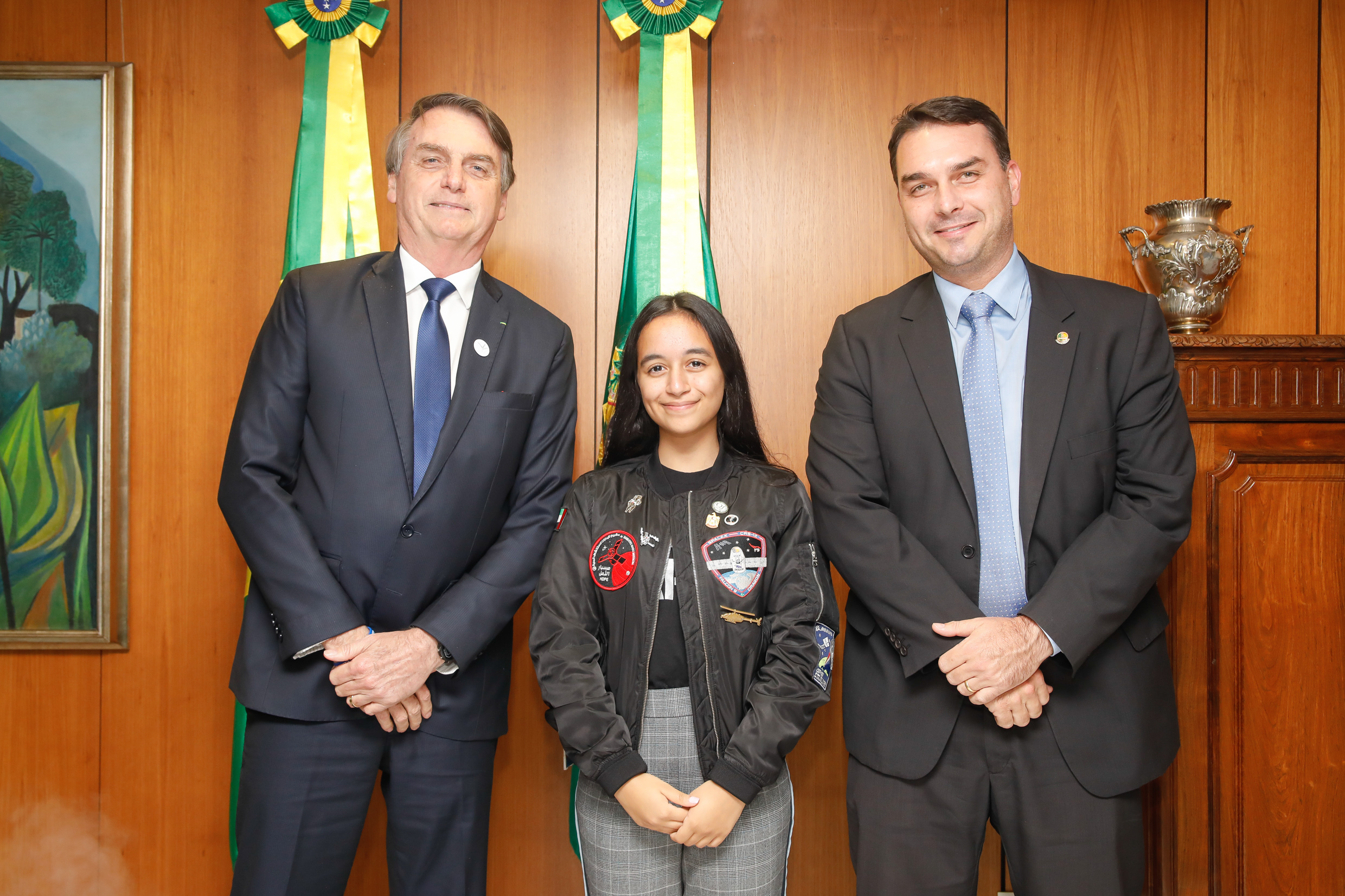 (Brasília - FD, 2019/04/10) President of the Federative Republic of Brazil, Jair Bolsonaro, during a meeting with Alia Ahmad Khamis Abdulla from United Arab Emirates. Photo by: Carolina Antunes/PR